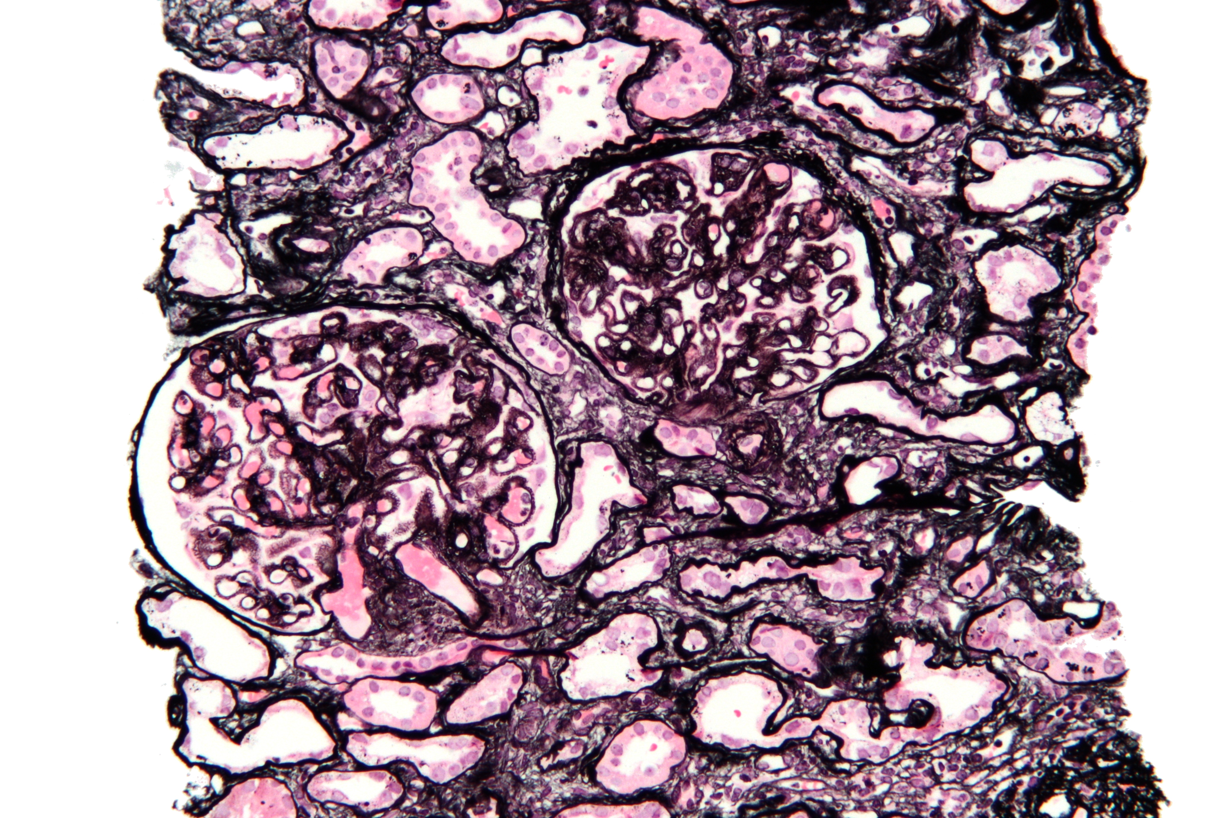 High magnification micrograph of membranous nephropathy, abbreviated MN. MN may also be referred to as membranous glomerulonephritis, abbreviated MGN. Kidney biopsy. Jones stain. The characteristic feature on light microscopy is basement membrane thickening/spike formation, which is best seen with silver stains. On electron microscopy, subepithelial deposits are seen. Related images Intermed. mag. MPAS. High mag. MPAS. Very high mag. MPAS. Very high mag. MPAS. Very high mag. MPAS. (cropped) High mag. HE. Very high mag. HE. Very high mag. PAS.